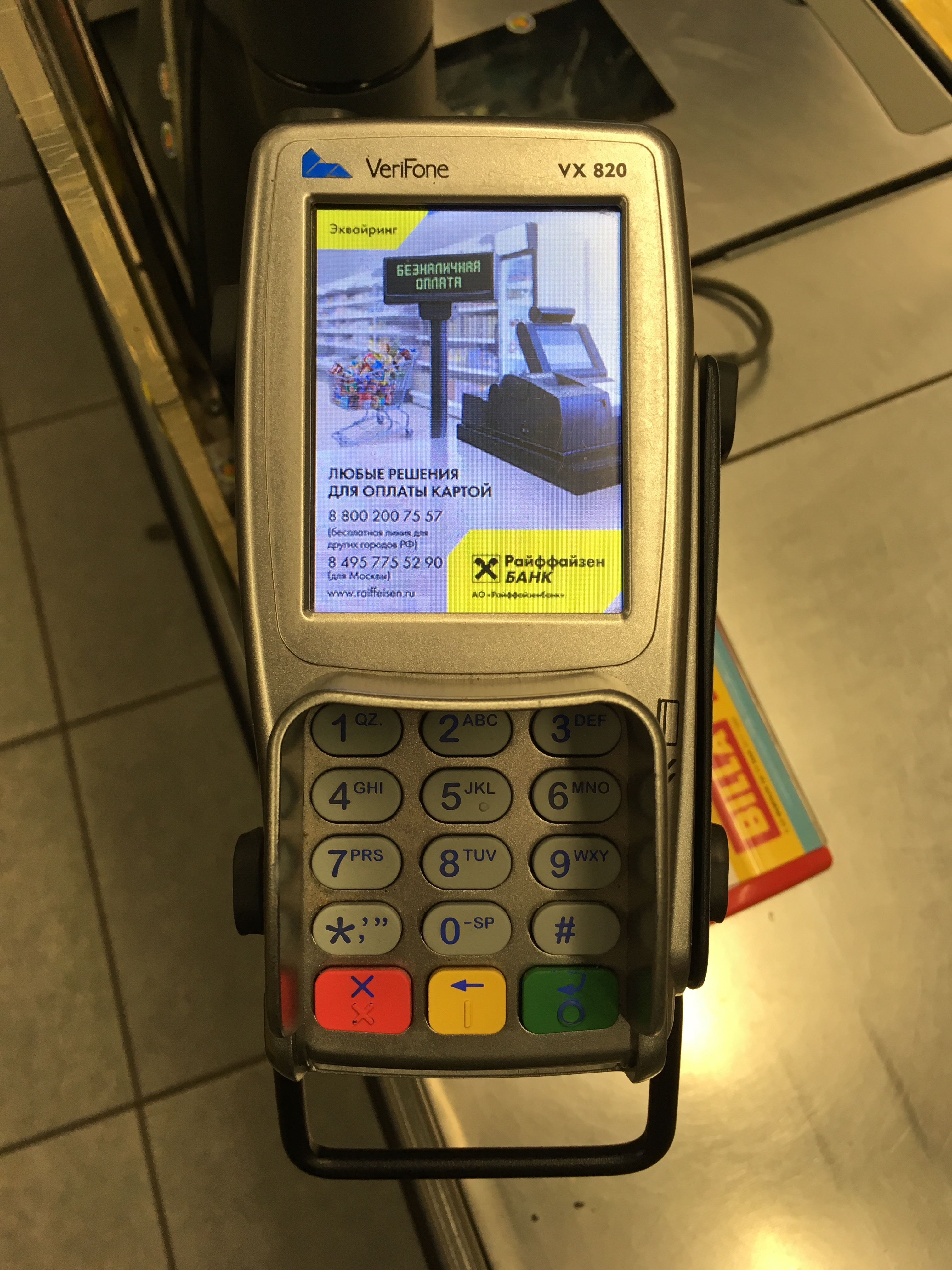 POS terminal in Moscow